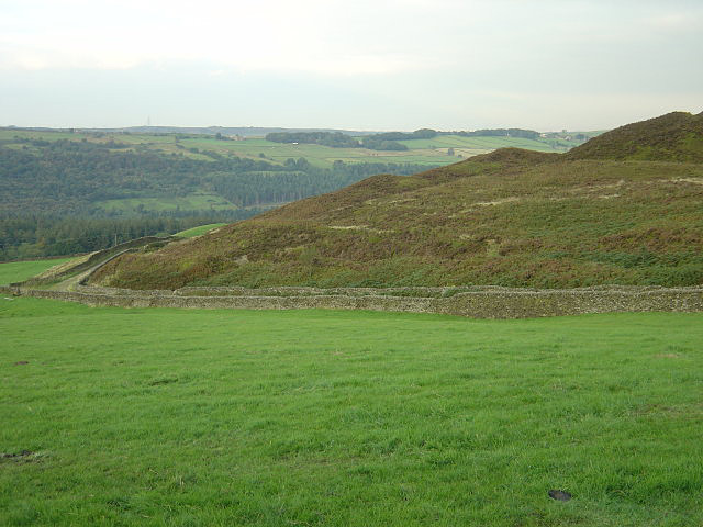 Canyards Hill The rough outline suggests evidence of quarrying, but is in fact natural. The area is a Site of Special Scientific Interest (SSSI), the citation for which includes the following: "This site possesses the most impressive examples in England and Wales of the topographic features known as 'ridge-and-trough' or 'tumbled ground'. Beneath a 10 m high cliff the north-facing valleyside above Broomhead Reservoir is a chaotic mass of sub-parallel ridges, separated by intervening narrow areas of marshy ground. The site is formed in Upper Carboniferous 'Millstone Grit' and shows the most extreme form and best example of 'tumbled ground', with innumerable small Millstone Grit blocks (controlled by jointing) taking up a large landslip."